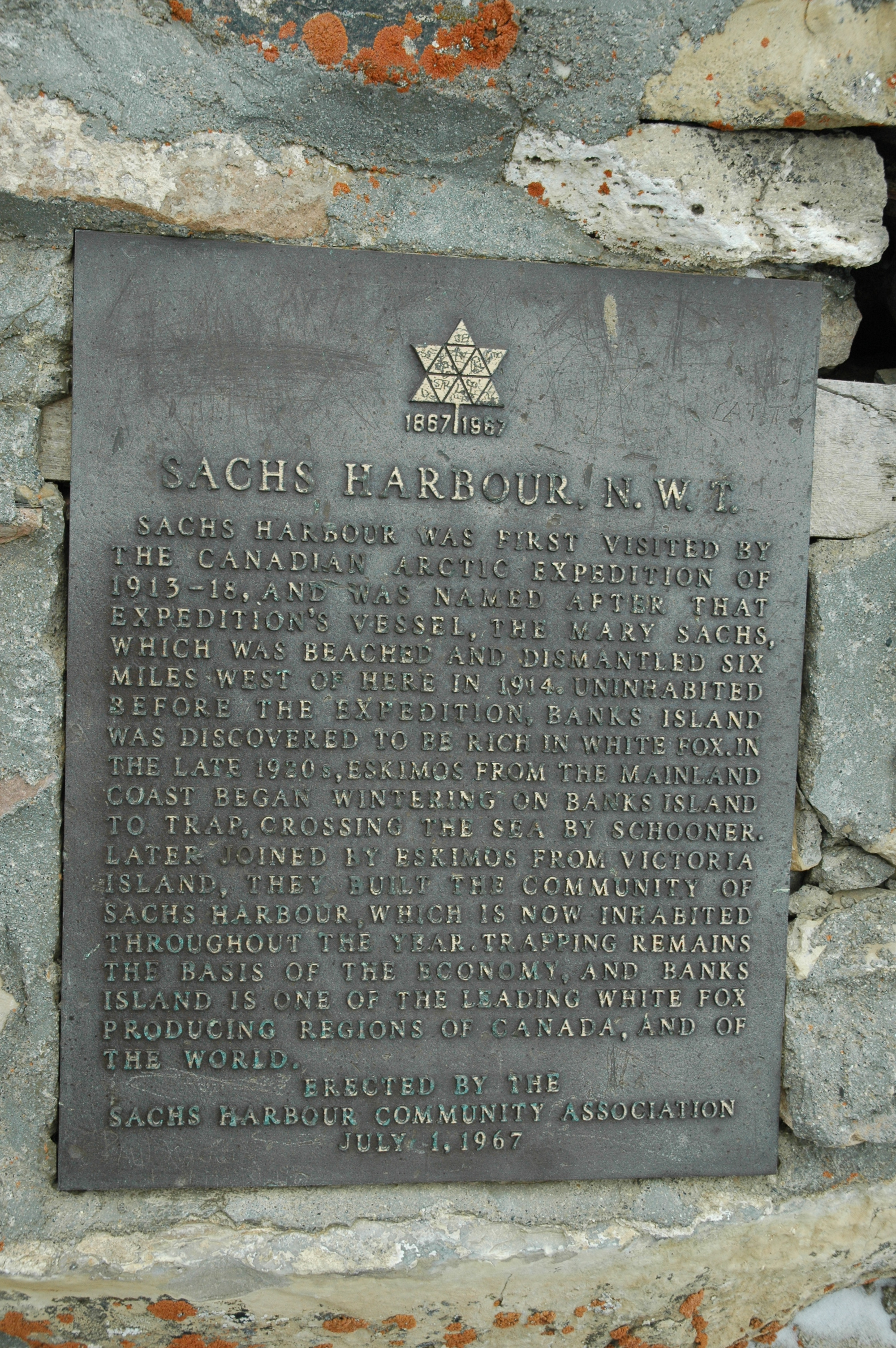 Close up of plaque at Sachs Harbour, Northwest Territories, Canada